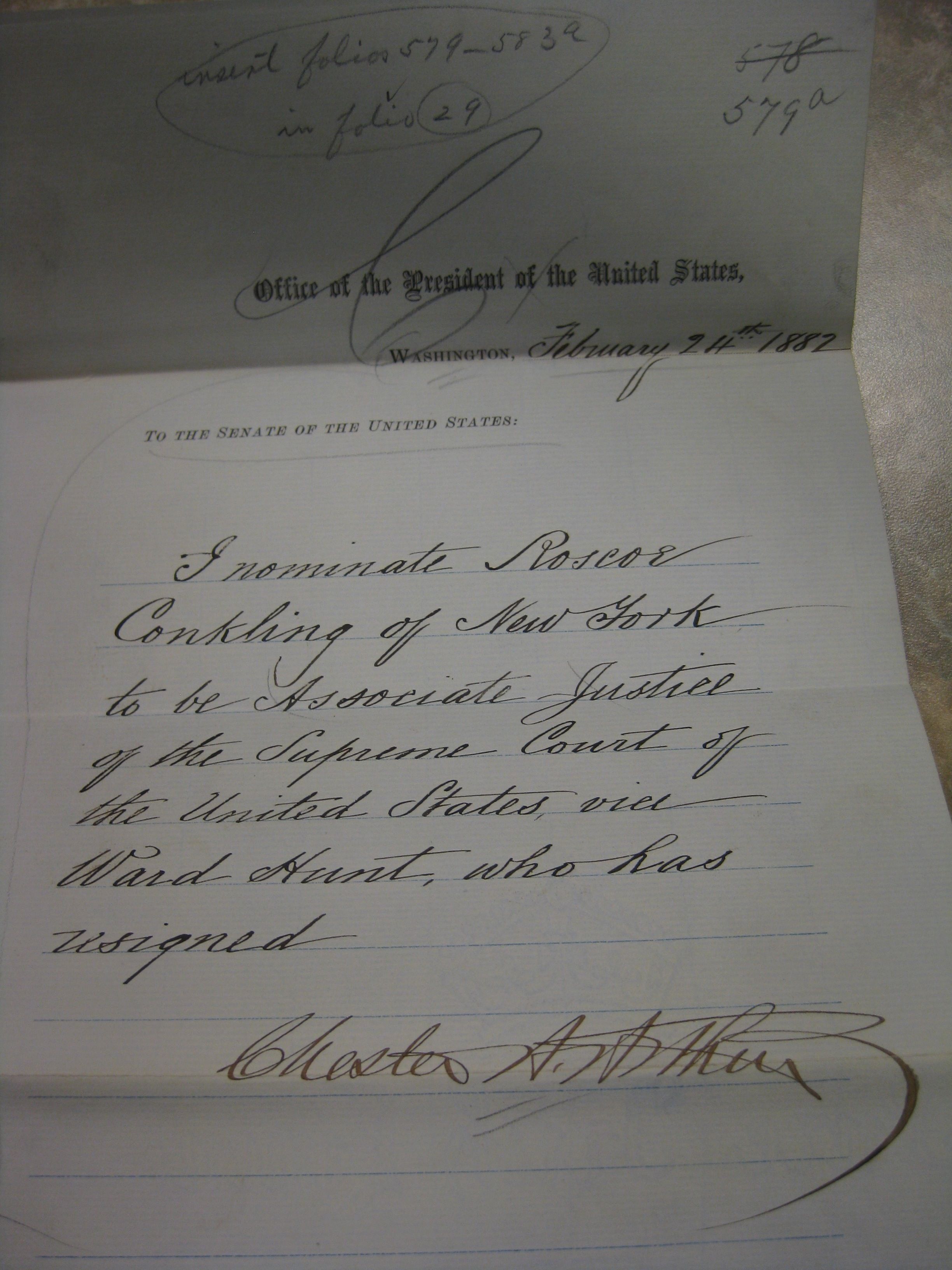 Chester Arthur's nomination of Roscoe Conkling to serve on the U.S. Supreme Court. Courtesy of the National Archives and Records Administration.